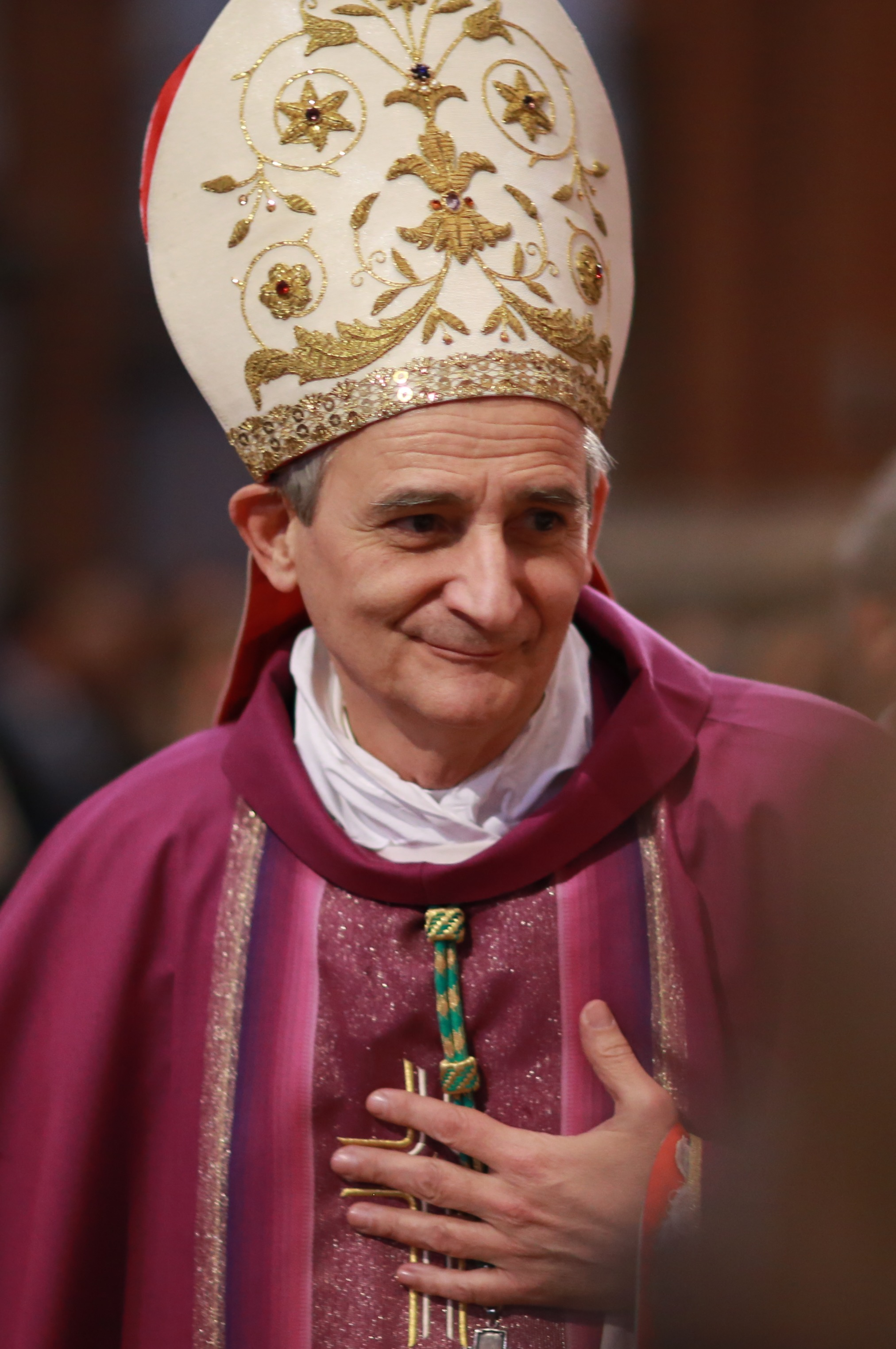 Matteo Maria Zuppi